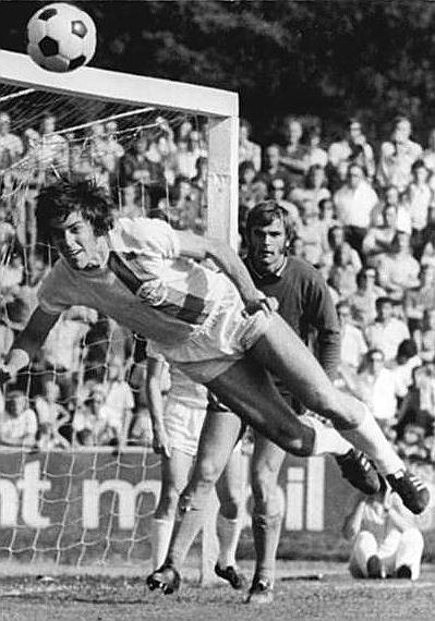 Title: FC Carl Zeiss Jena - FC Hansa Rostock 3:0 Factual corrections and alternative descriptions are encouraged separately from the original description. Additionally errors can be reported at this page to inform the Bundesarchiv. Original historic description: ADN-ZB-Liebers-31-8-74-ma-Jena: Fußball-Oberligaspiel FC Carl Zeiss Jena - FC Hansa Rostock 3:0 - Wolfgang Ramlow (Mitte - FC Hansa Rostock) wehrt einen Eckball des zweifachen Torschützen Eberhard Vogel per Kopf erfolgreich ab. Links lauert Peter Ducke (beide FC Carl Zeiss Jena). Im Hintergrund 2.v.l. Eckhardt Märzke, rechts Torwart Bernd Jakubowski (beide FC Hansa Rostock).